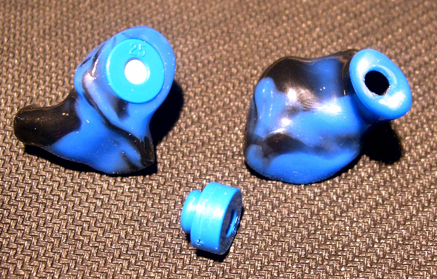 Professional, individual silicone earplug (blue-black) with blue Elacin Filter-element ER-25.